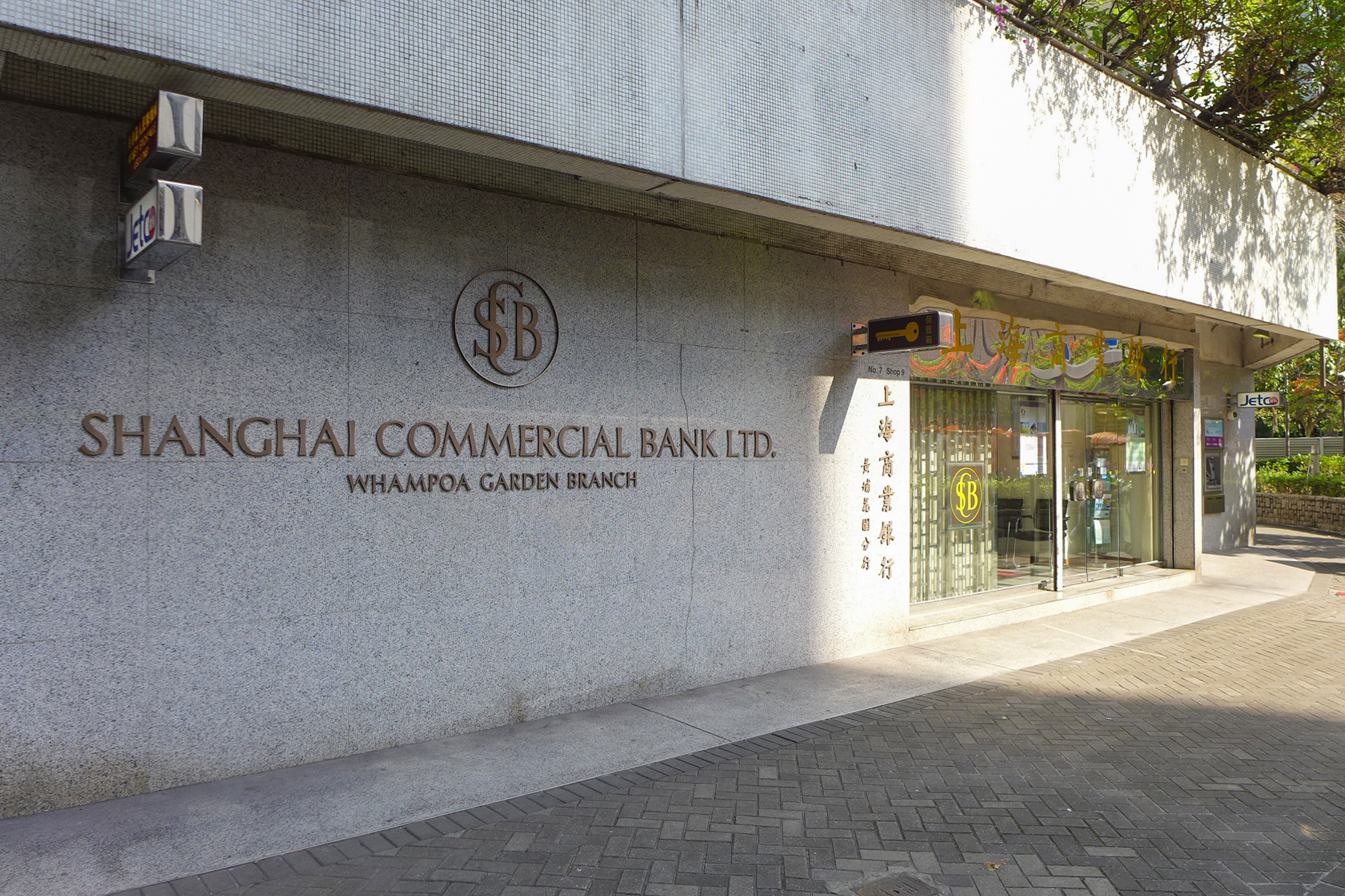 Shanghai Commercial Bank Ltd in Whampoa Garden